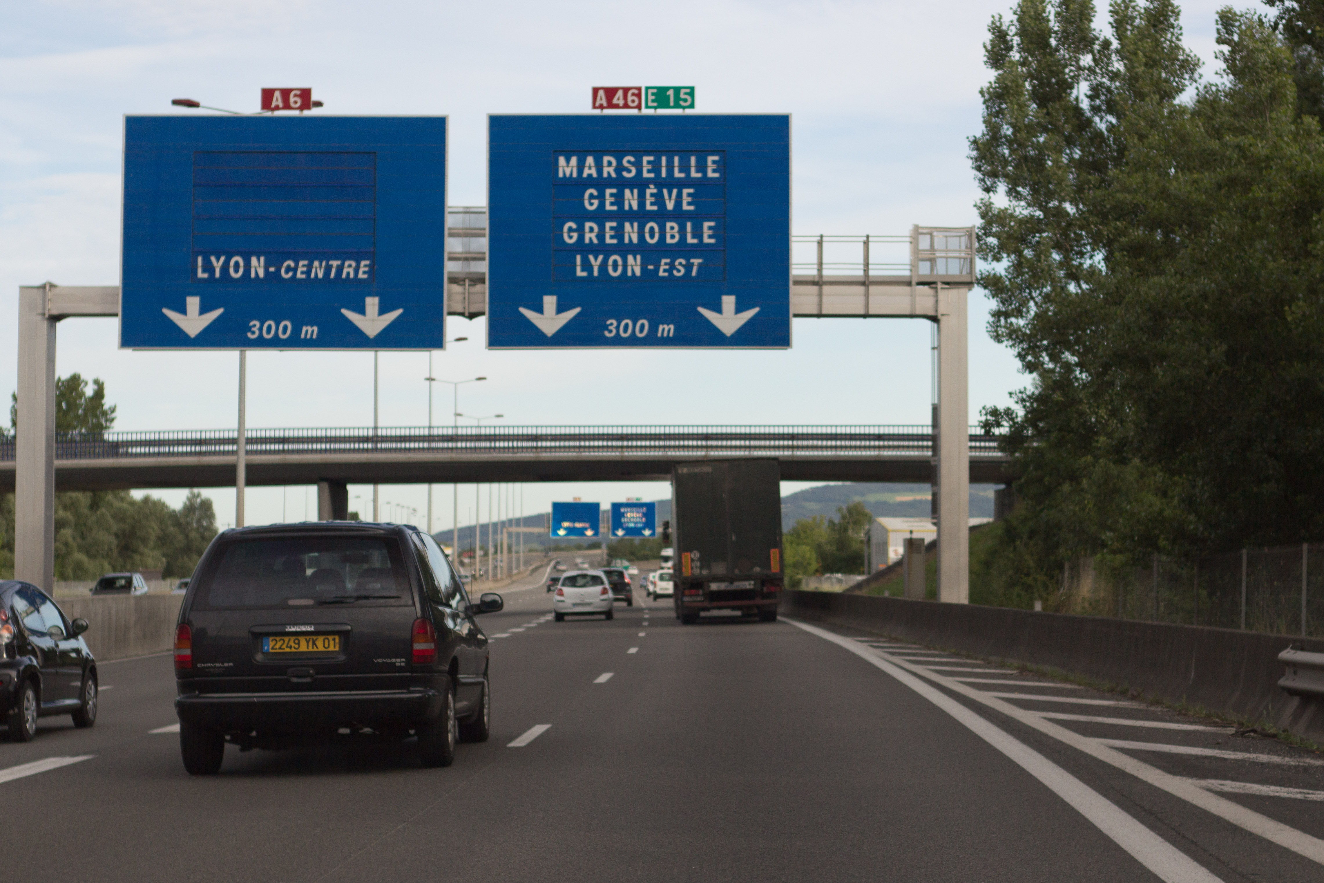 Autouroute A6 - Bifurcation A6-A46 sens Paris-Lyon (France)